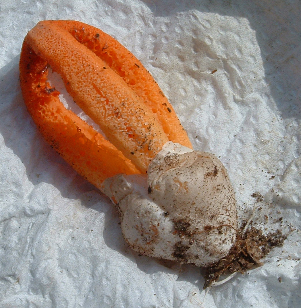 The stinkhorn fungus species Clathrus columnatus Bosc. Photographed in Mepkin Abbey, Berkeley Co., South Carolina, USA. Notes:"Found under a pine tree."